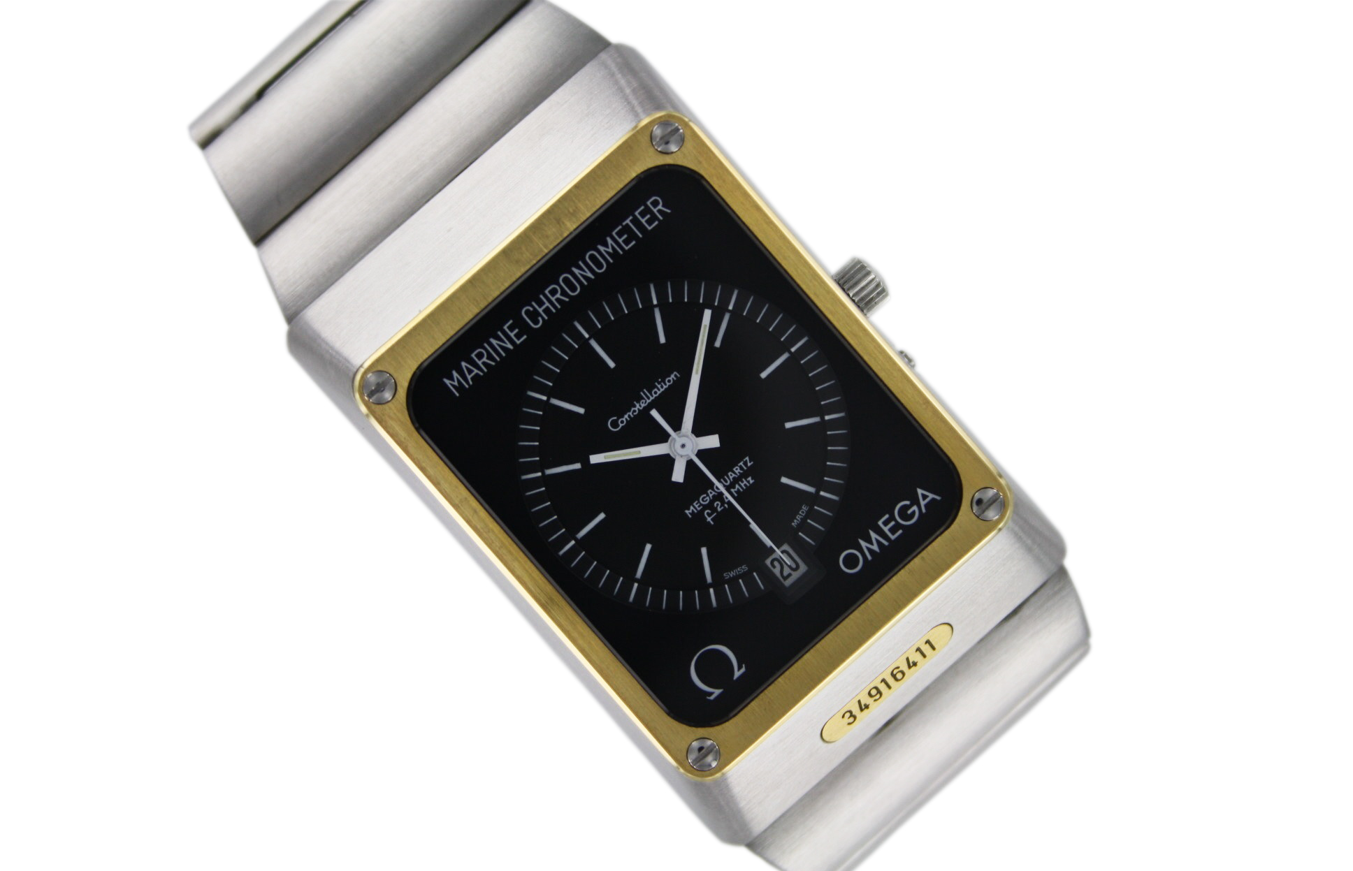 Omega Constellation Megaquartz F2.4 Marine Chronometer 1511